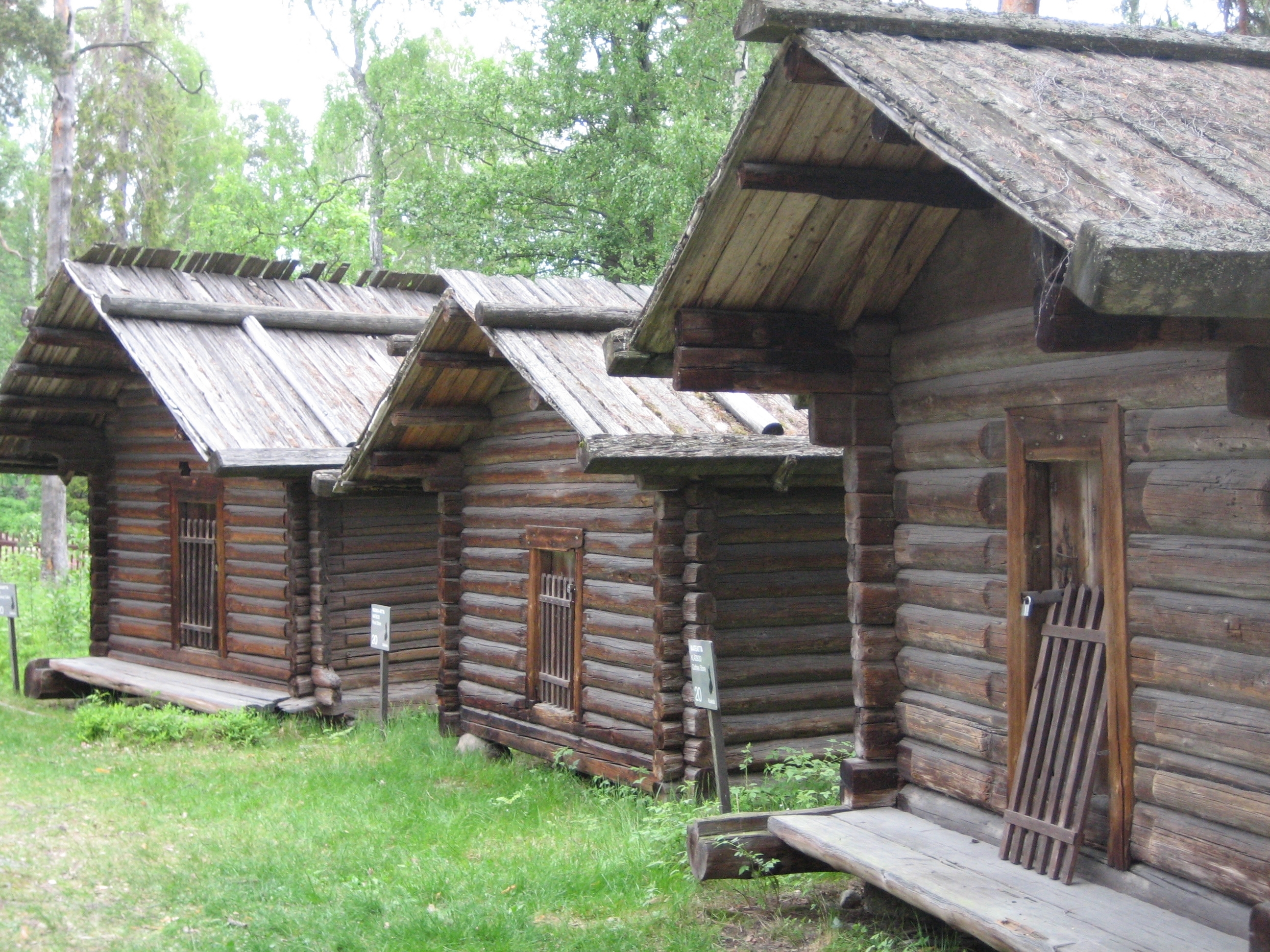 Stores for food and clothes at the Seurasaari Open-Air Museum in Helsinki, Finland. The stores have been transferred to the museum from various parts of Finland.